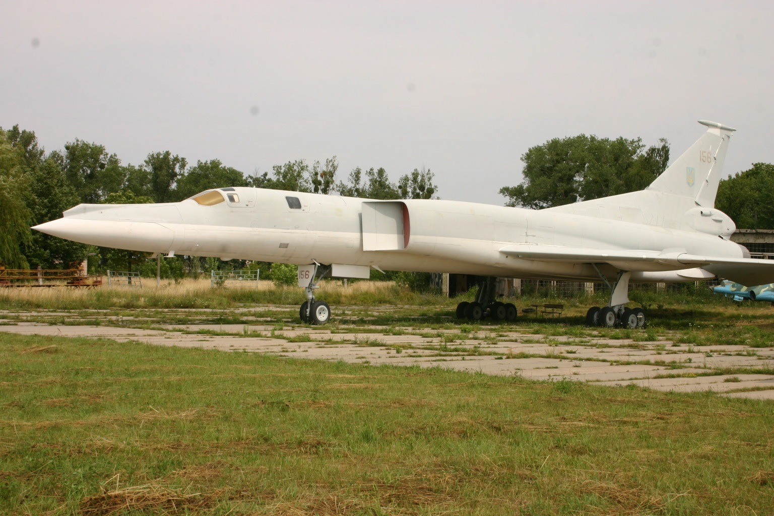 At Kiev - Zhulhany Museum